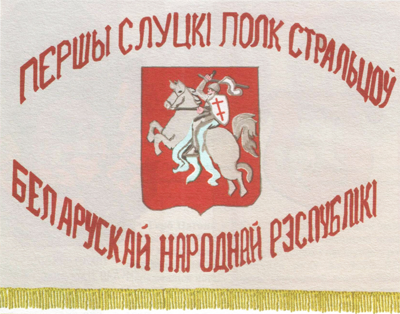 Flag of the First Regiment of Slutsk during the Slutsk Defence Action]